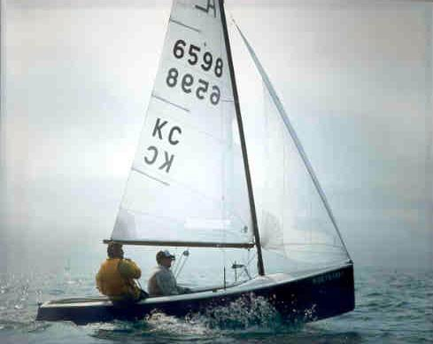 An Albacore dinghy planing. (I own the rights to this image.)